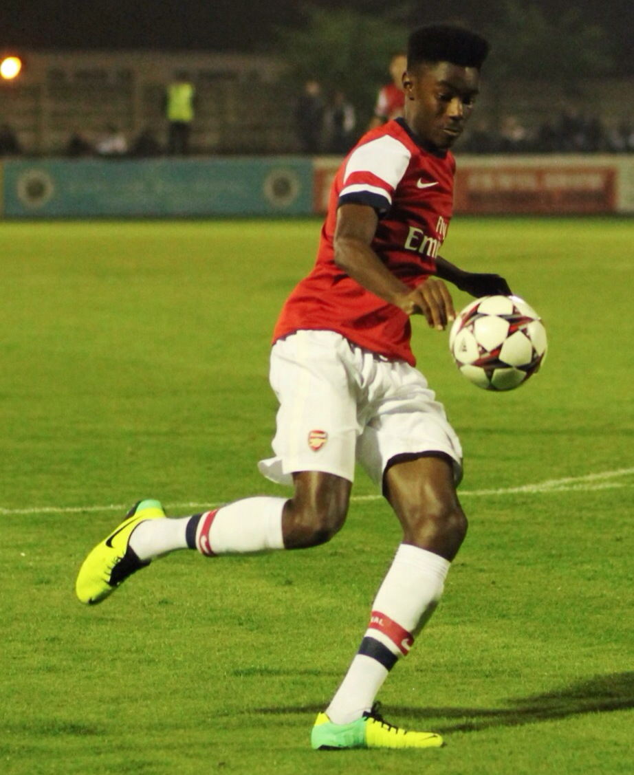 Stefan O'Connor vs Napoli U19. Youth Champions league